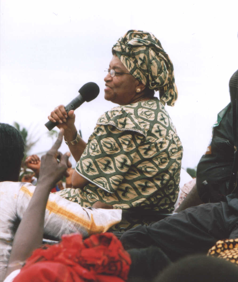 Ellen Johnson-Sirleaf campaigning in Monrovia, Liberia in 2005, shortly before she was elected.